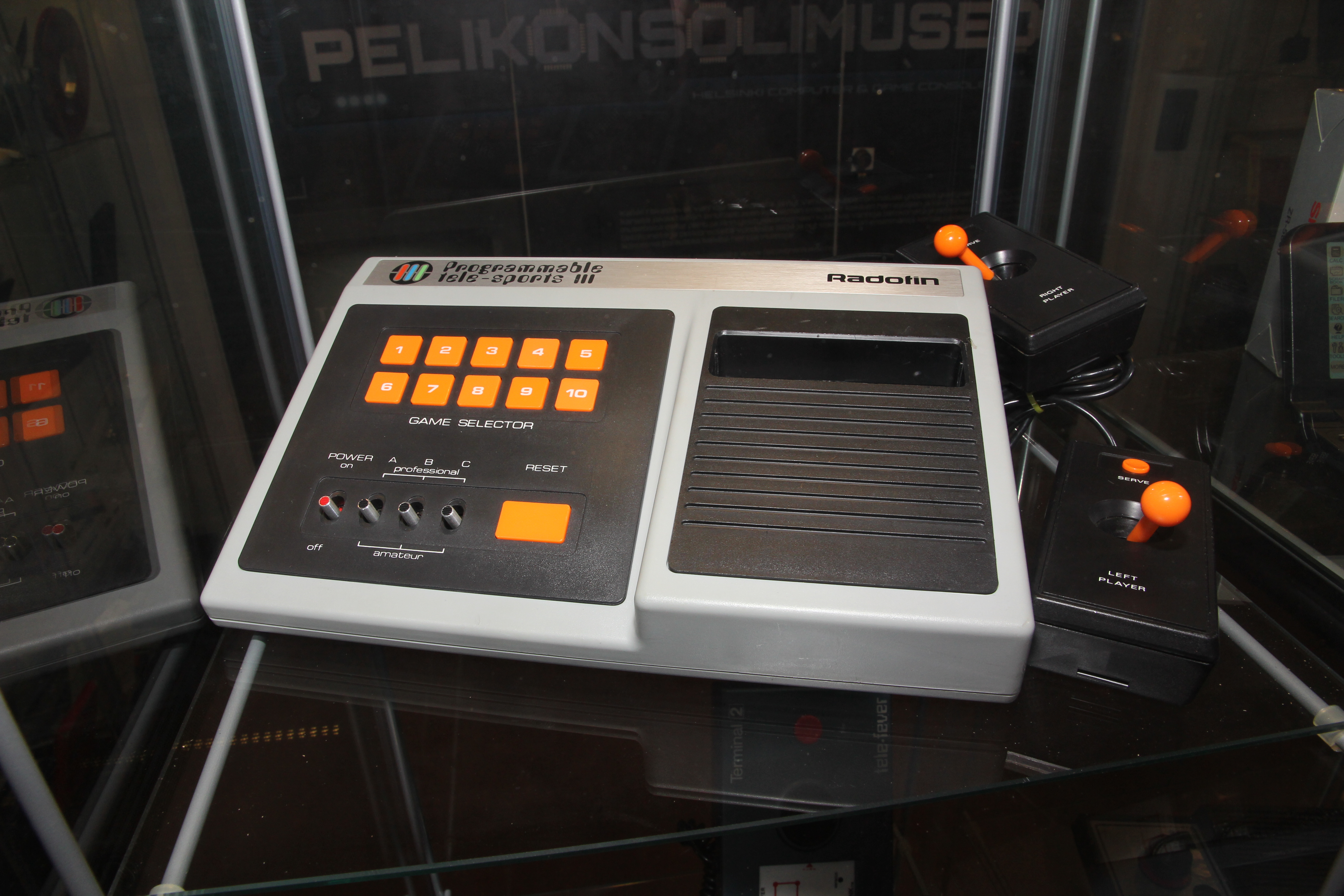 Radofin Tele-Sports III (1978) game console in Helsinki Computer and game console museum. Belong to the PC-50x family of pong consoles